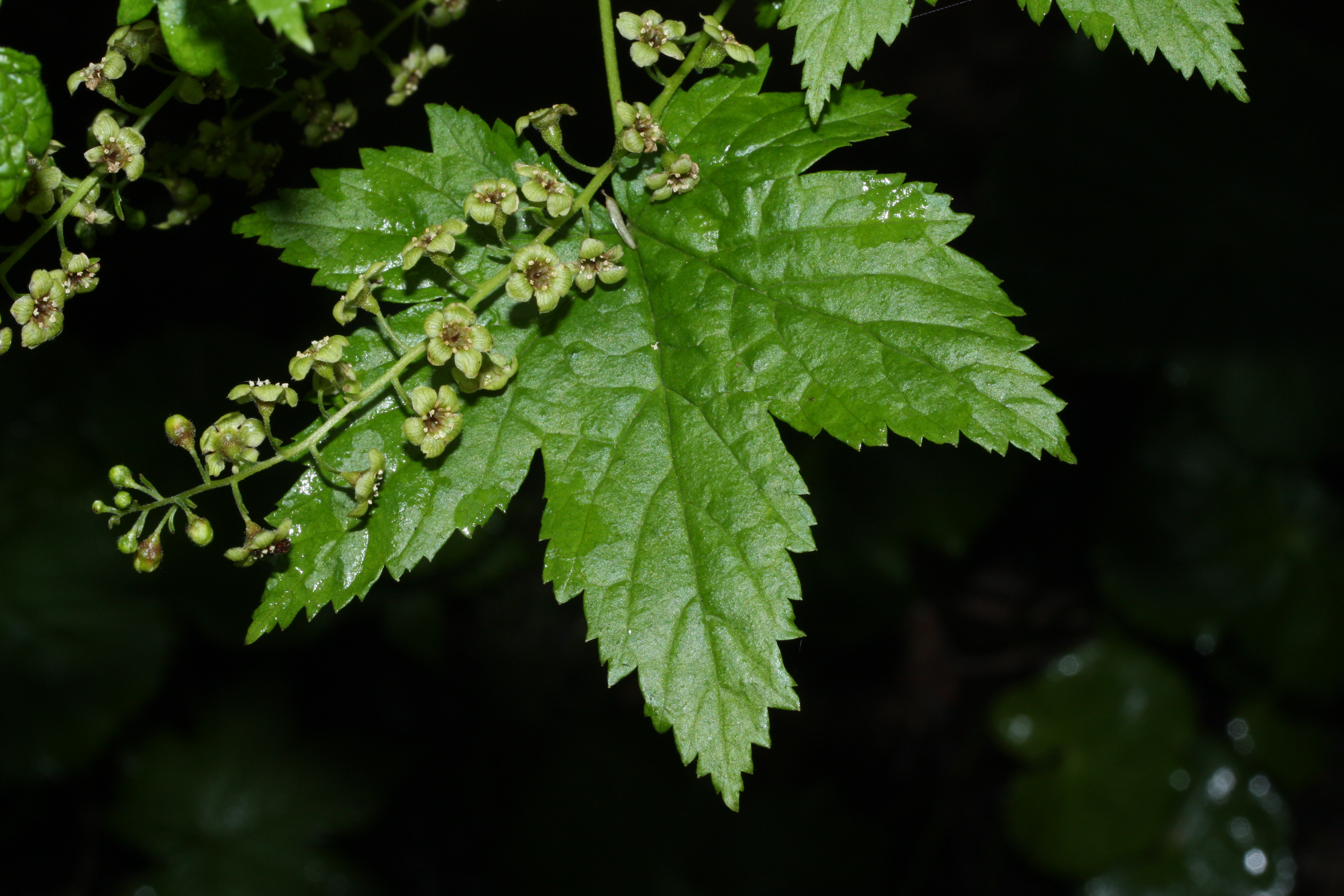 Stink Currant, California Black Currant